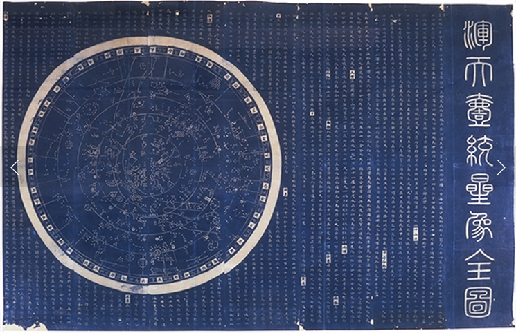 Rubbing of a stone carving of a Song Dynasty era star chart. "Suchow" is an obsolete spelling of Suzhou.